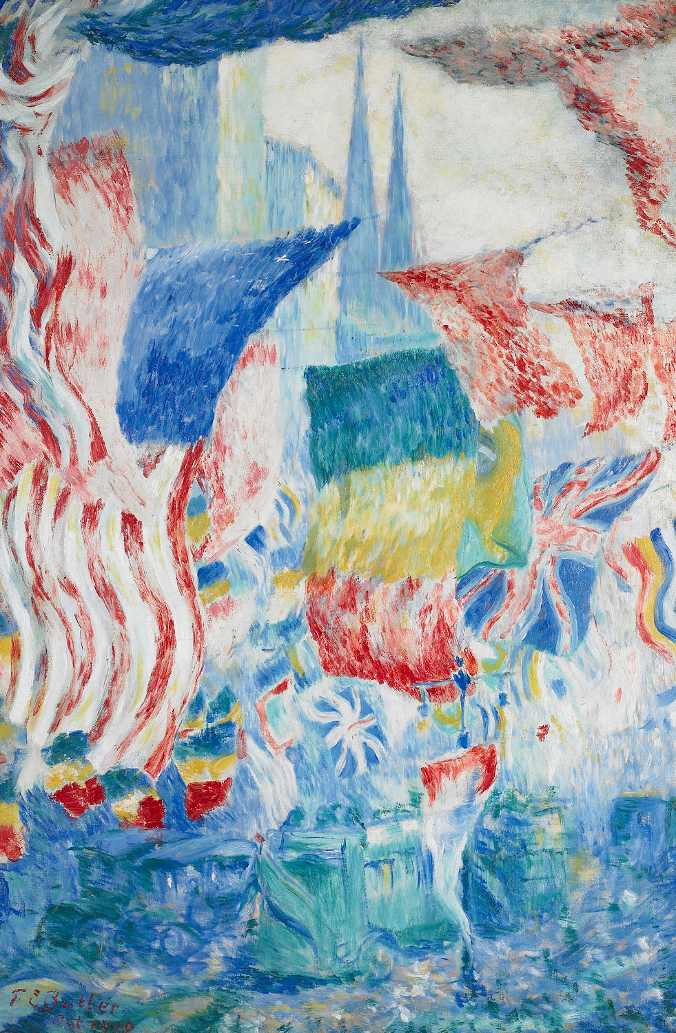 A painting depicting an Allied flag celebration on New York's Fifth Avenue in October 1918.